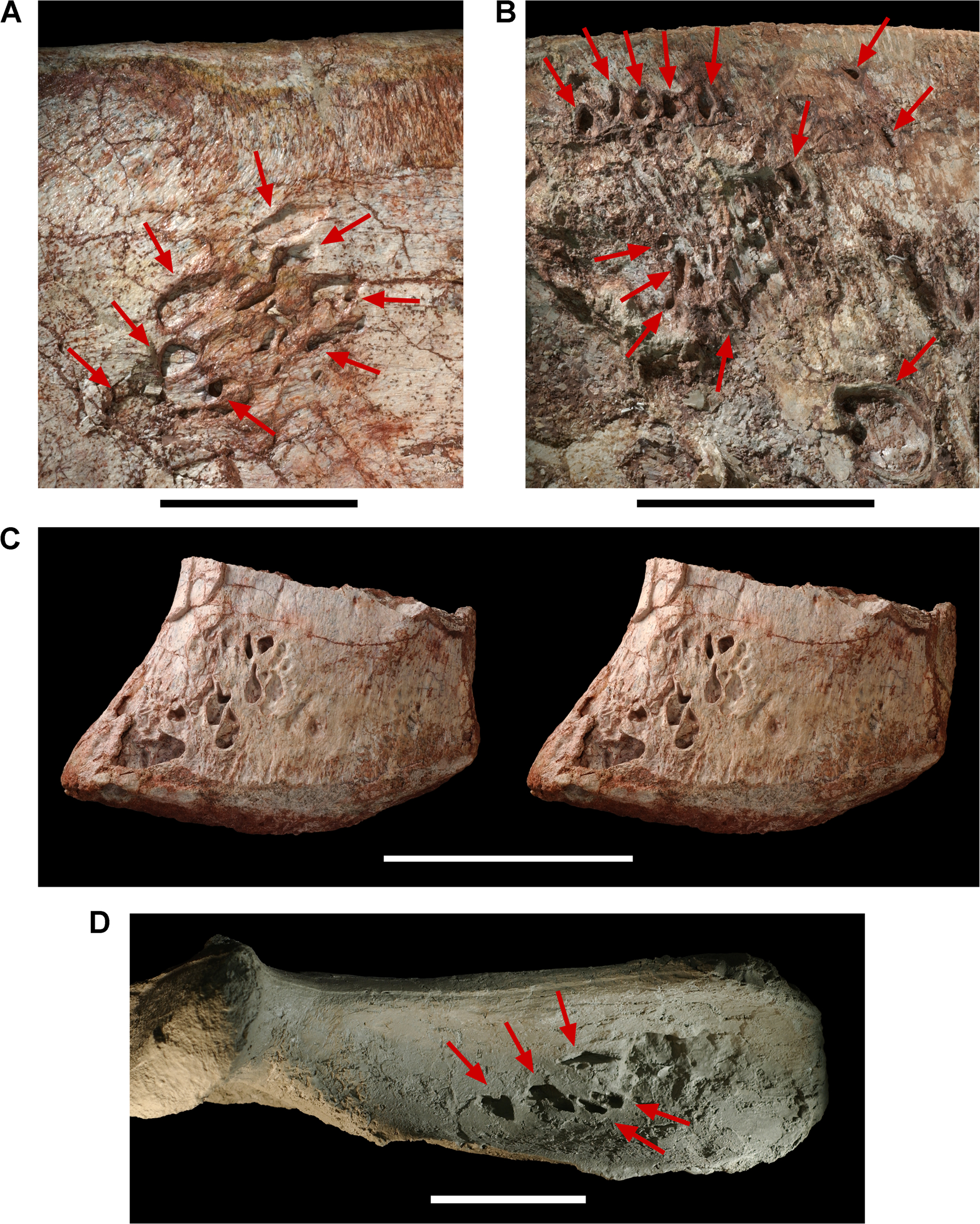 Original caption: "Figure 14. Pneumatopores on the left ilium of the theropod Aerosteon riocoloradensis. Detail views of the left ilium (MCNA-PV-3137). (A)-Pneumatopores on the base of the preacetabular process in lateral view. (B)-Pneumatopores on the central iliac blade in medial view. (C)-Stereopairs of the pubic peduncle in lateral view showing pneumatopore complex. (D)-Pneumatopores on the brevis fossa of the postacetabular process in ventral view; largest pneumatopore (4 cm in transverse diameter) opens posteriorly (to the right) just posterior to five smaller ventrally-facing pneumatopores (marked). A, B, and D are from a cast of MCNA-PV-3137 to reduce color distraction. Scale bars equal 5 cm in A and 10 cm in B, C and D. Arrows point to pneumatopores."